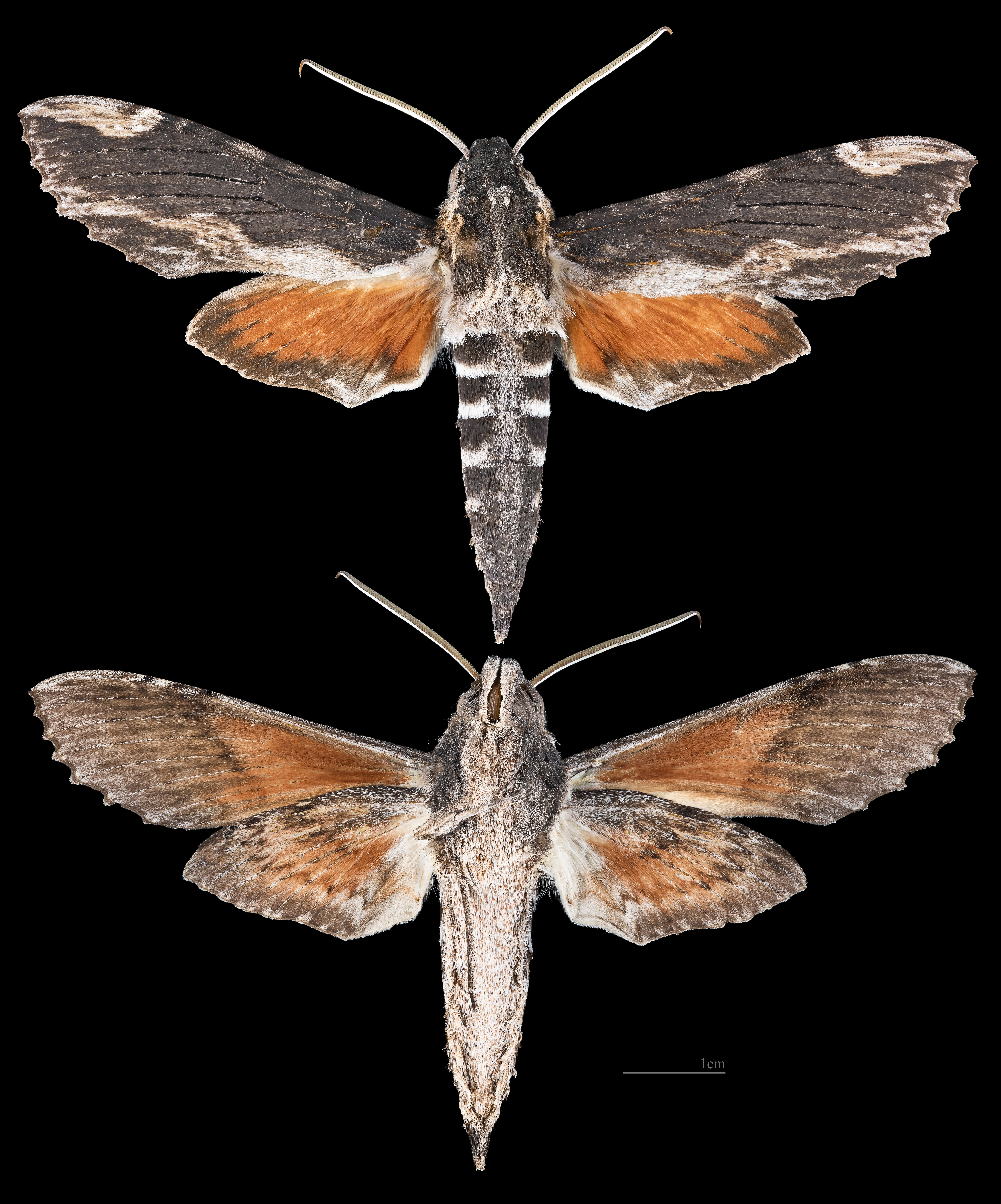 Erinnyis impunctata - Two views of same specimen Collection of the Mathematician Laurent Schwartz